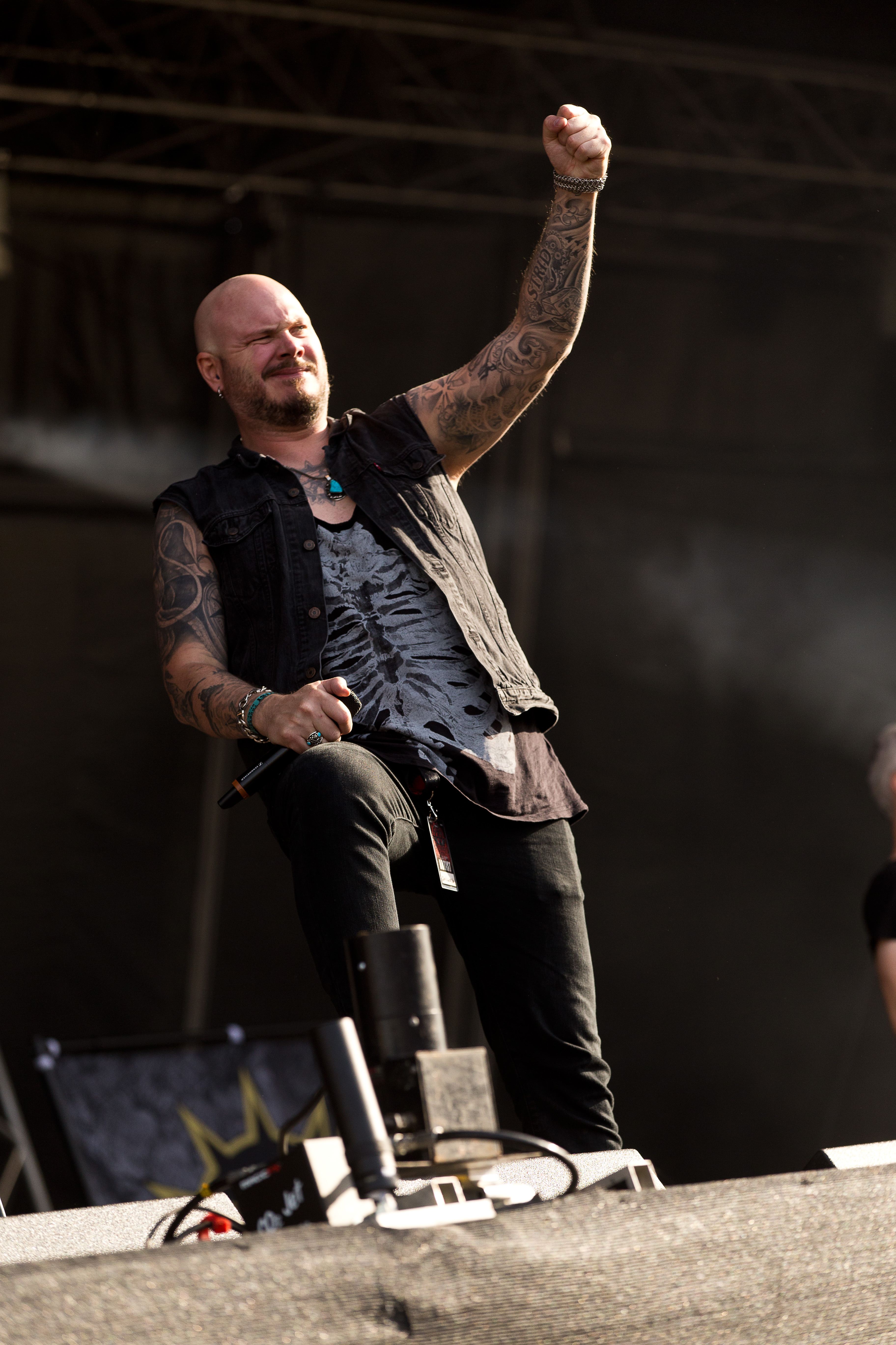 The Swedish melodic death metal band Soilwork at the Rockharz Open Air 2016 in Ballenstedt/Germany.